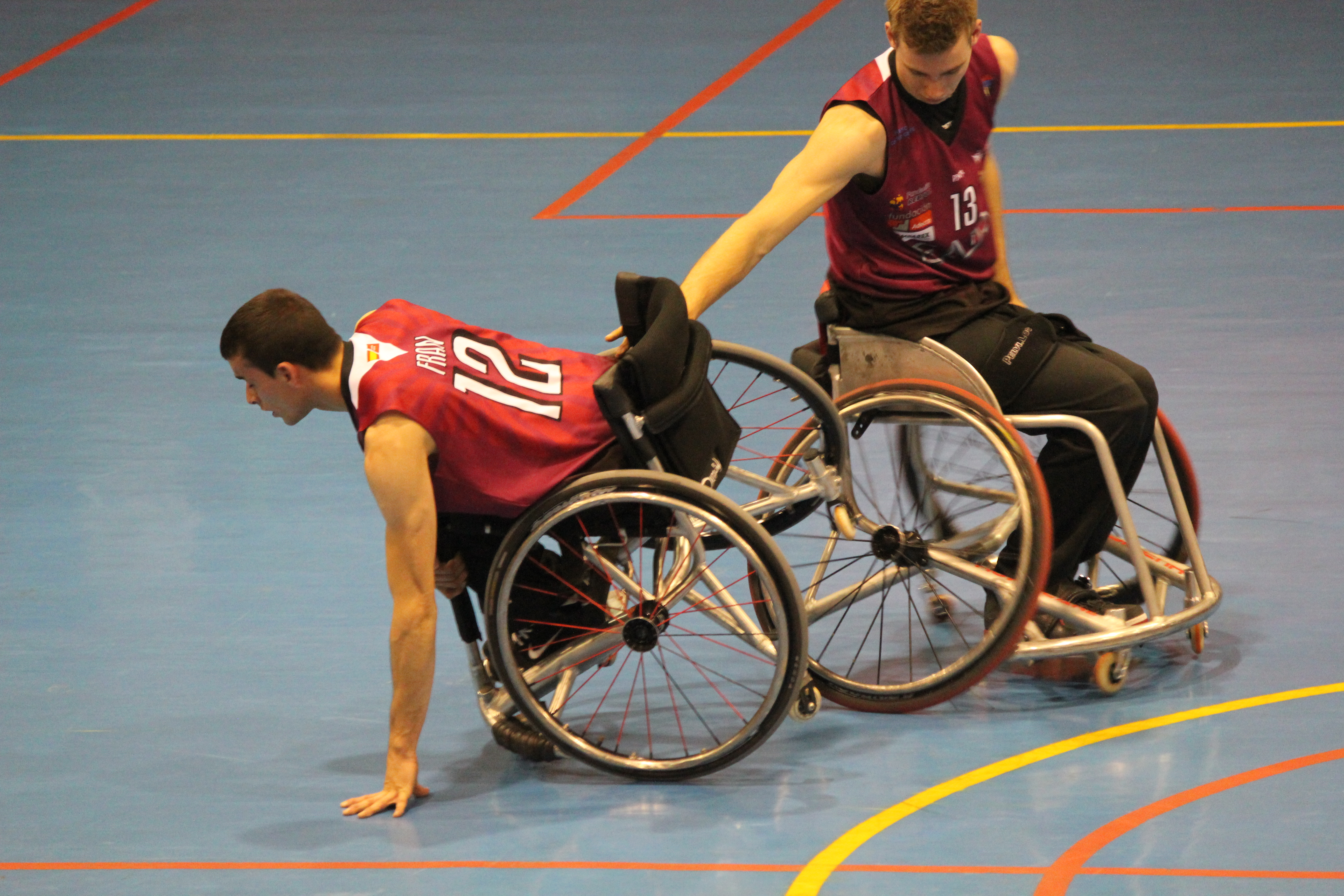 ONCE v Getafe, Madrid, November 9, 2013